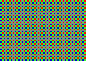 image craeted by jean-pierre sagaire